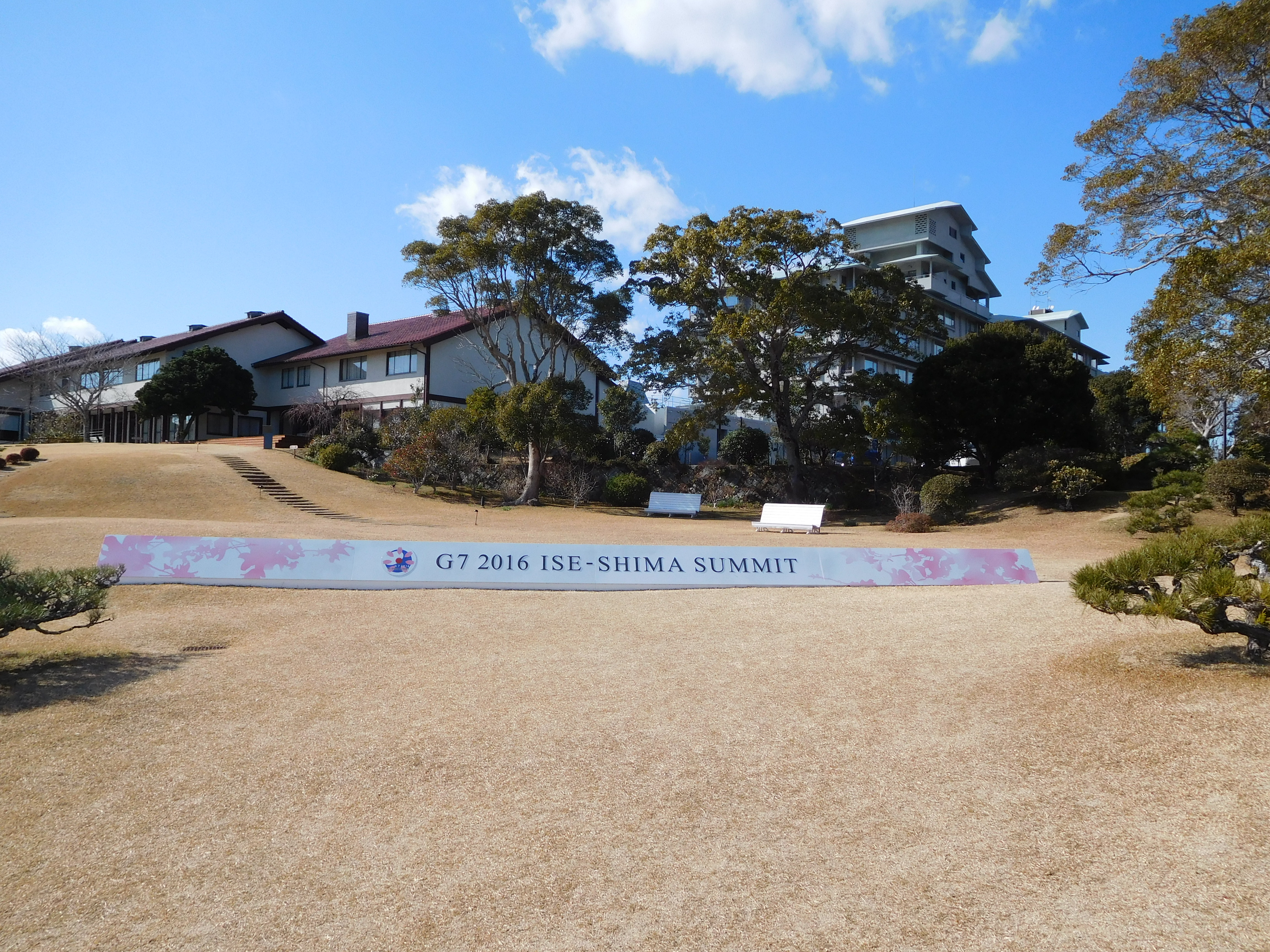 This is a garden of Shima Kanko Hotel in Shima, Mie, Japan. Here was a place where group photos of G7 Leaders and Guest Invitees were taken.